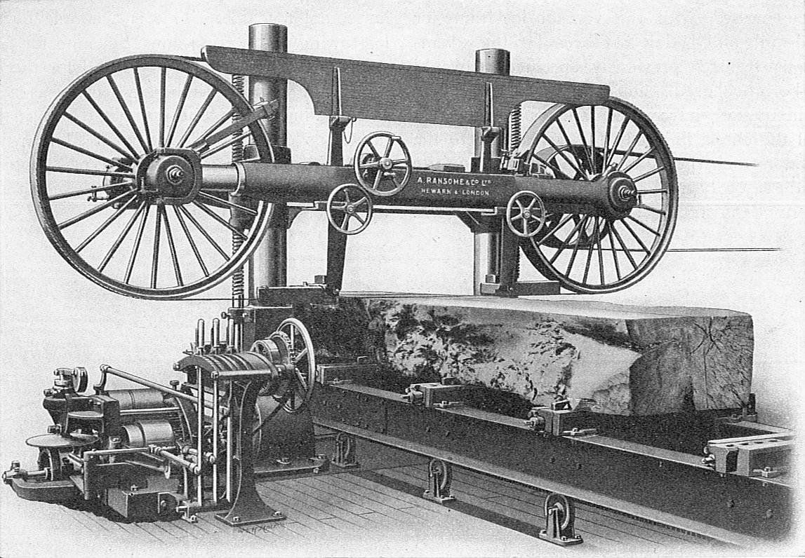 Fig. 15 'Ransome's Horizontal Log Band-saw, "Standard" Type' Horizontal bandsaw mill for through-sawing logs. Described in the text as, "possibly the most expensive of all wood-working machines, but it is also perhaps the most rapid single-bladed saw in the world". The comparison is with its precursors, the reciprocating saw frames. The pulleys are of 6 ft. diameter and the blade runs at 7,000 ft. per minute. It is claimed to cut over 3,700 feet in three hours.